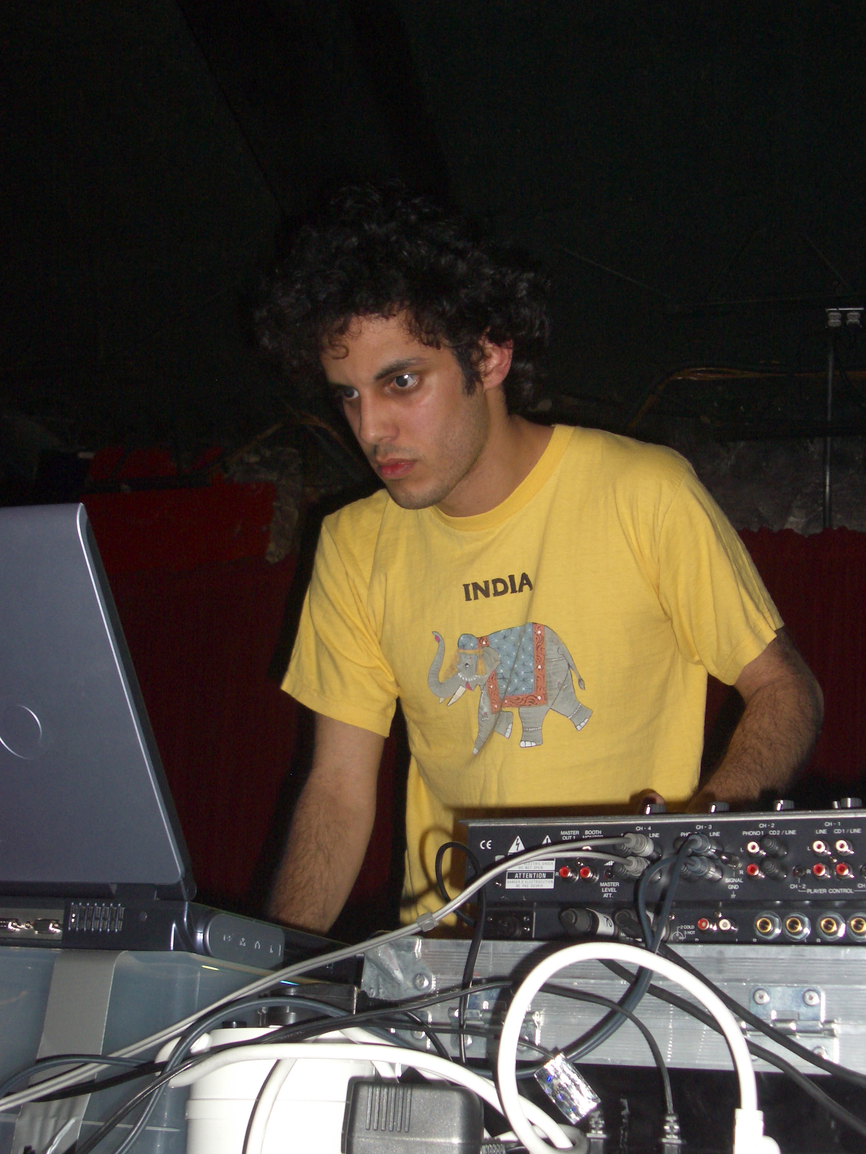 Four Tet performing at the Grog Shop in Cleveland, Ohio